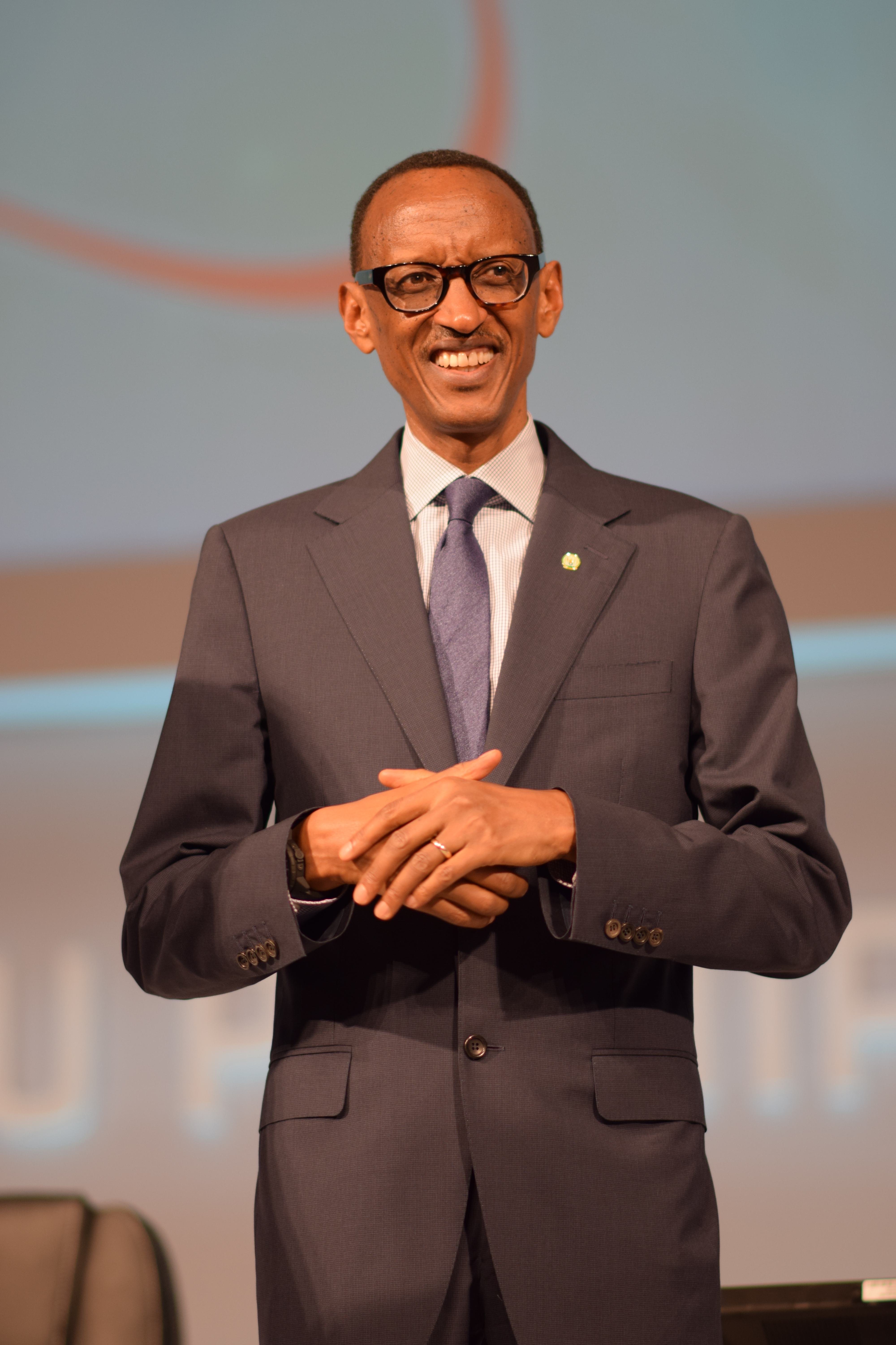 Rwandan President Paul Kagame At the ITU Plenipotentiary Meeting in Busan, Korea